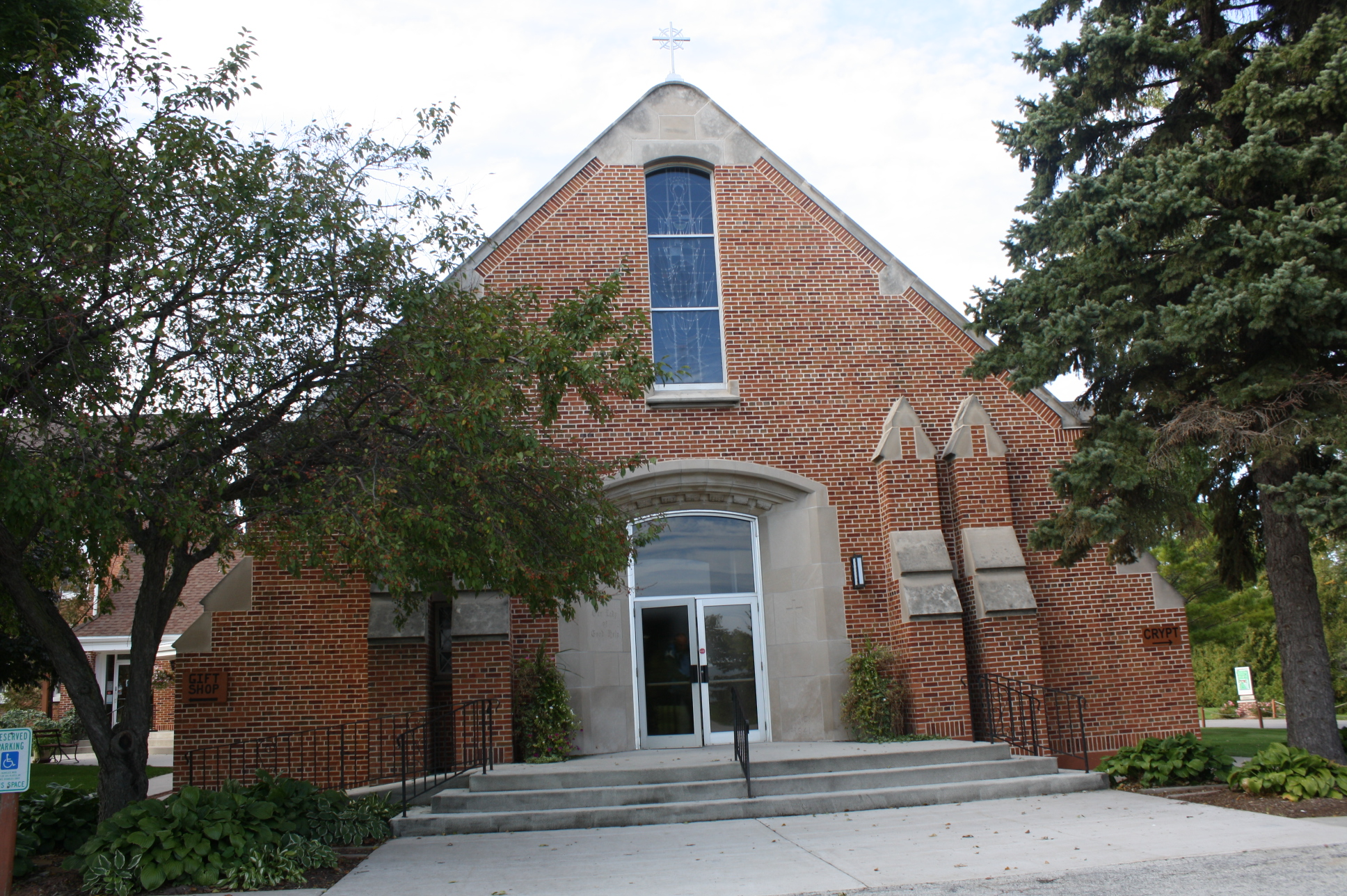 Looking north at the church for the Shrine of Our Lady of Good Help just east of Champion, Wisconsin.